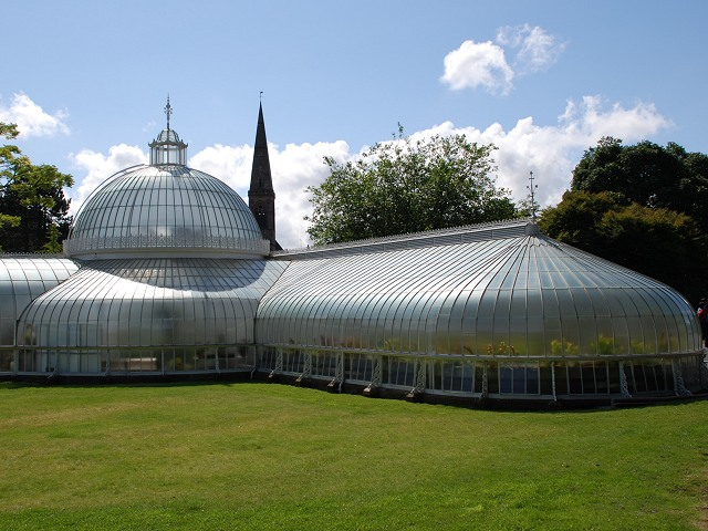 Kibble Palace The Kibble Palace is situated within the Glasgow Botanic Gardens. It is named after John Kibble, who had a house at Coulport, Loch Long, where part of the glasshouse was originally located. It was brought to Glasgow in 1872 where it was enlarged. An important and unique glasshouse of its type, the Kibble Palace is one of the last major iron and glass structures in Britain to be restored. The building structure is of curvilinear wrought (malleable) iron and glass supported by cast iron beams resting on ornate columns, surmounted on masonry foundations. With a floor area of 2189 metres the Palace takes the form of a large dome and rotunda connected to a smaller dome by a link corridor. The small dome forms the main entrance area and attached to the north and south are extended transepts. The national collection of Australasian tree ferns form the most important plant group within the building. Many of these date back to the mid 19th century and have grown in the Kibble Palace for the last 120 years. This view is from the north-east.